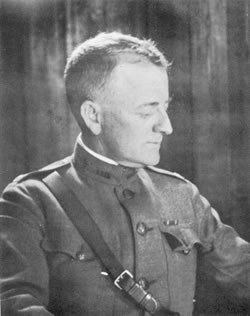 Colonel Joseph Franklin Siler